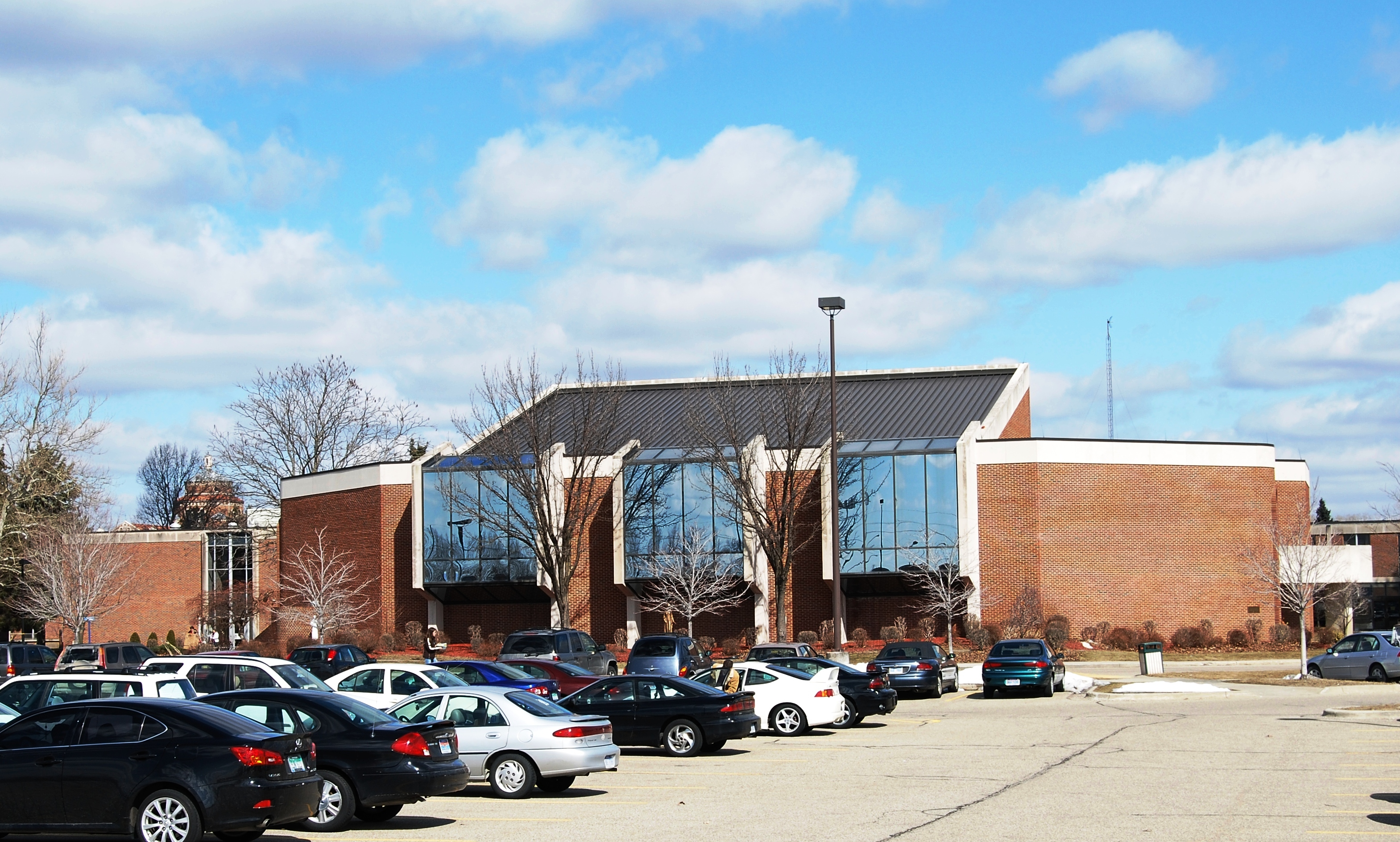 Madonna University, Livonia